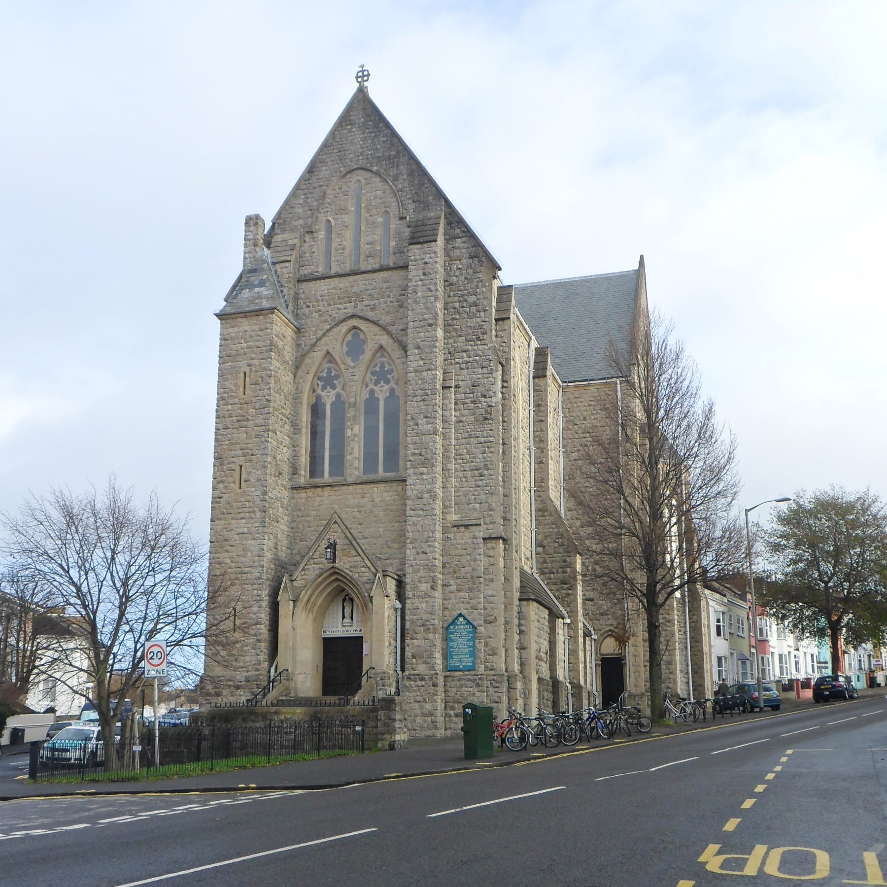 St Joseph's Roman Catholic Church, Elm Grove, Brighton, City of Brighton and Hove, England. Built between 1879 and 1906 by various architects, in Kentish Ragstone and Bath Stone. Listed at Grade II* by English Heritage (IoE code 480730).